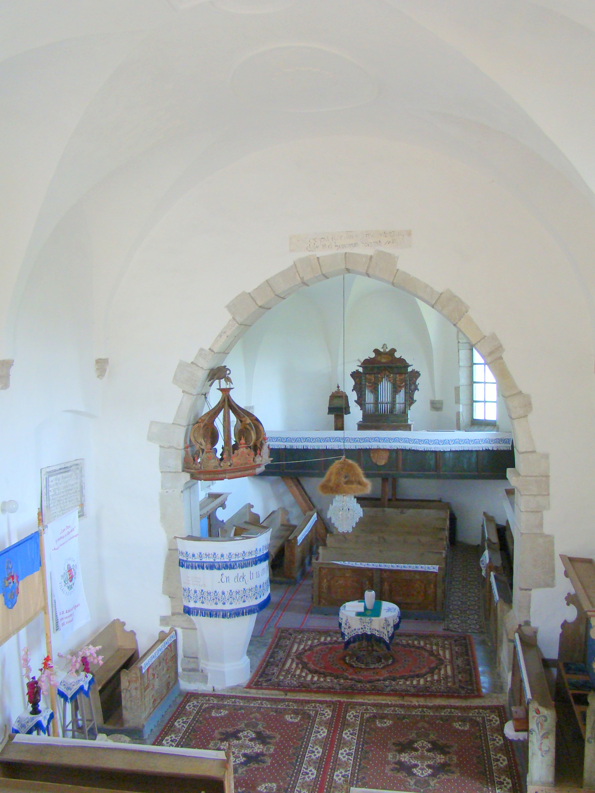 Reformed church in Șintereag, Bistrița-Năsăud county, Romania